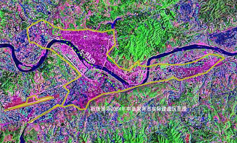 Sat Img of Zhangjiajie City(HN Prov.,CHN)